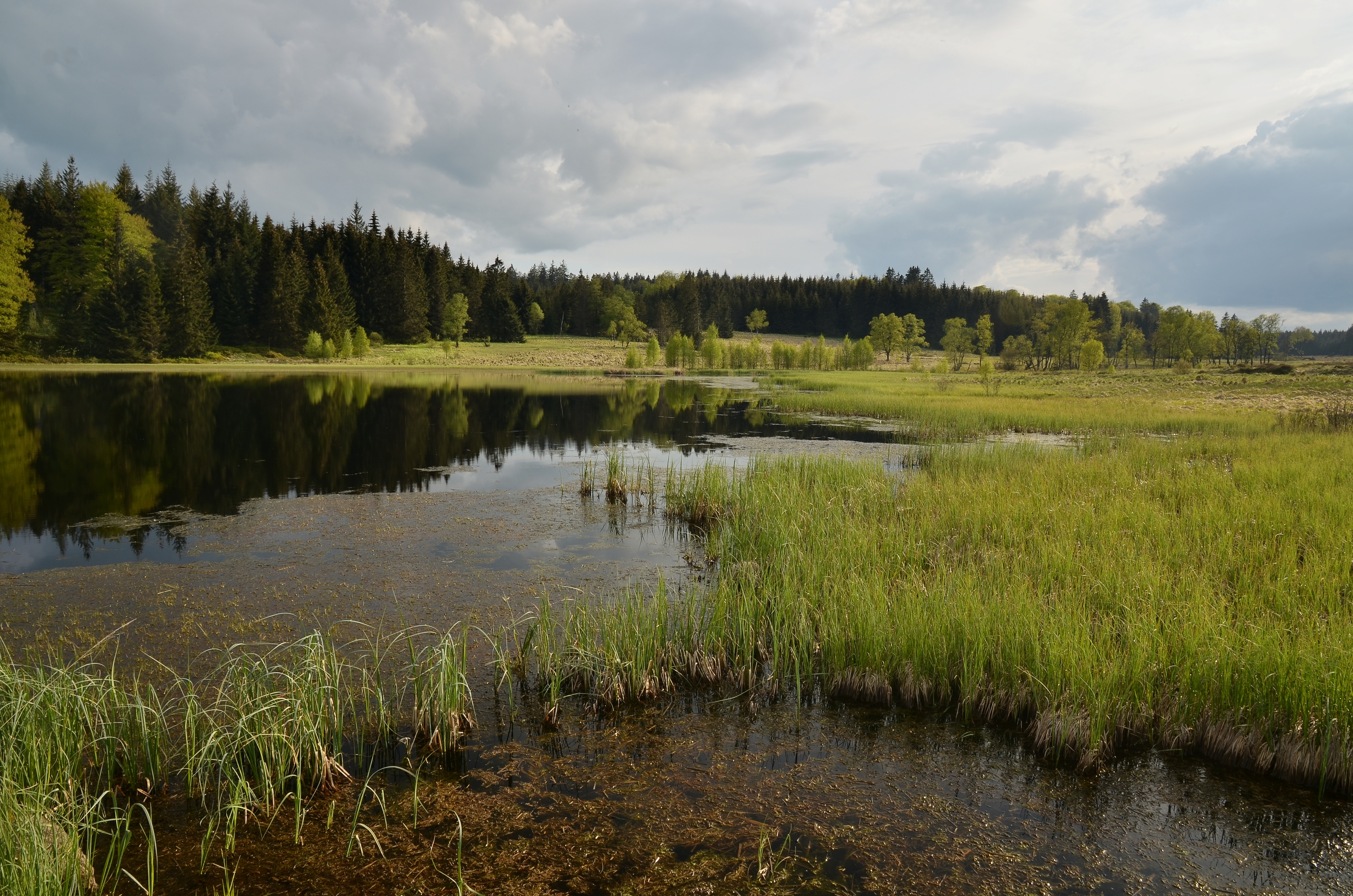 In this biotope are living two ladybird species typical from wet biotopes : Hippodamia septemmaculata and Anisosticta novemdecimpunctata